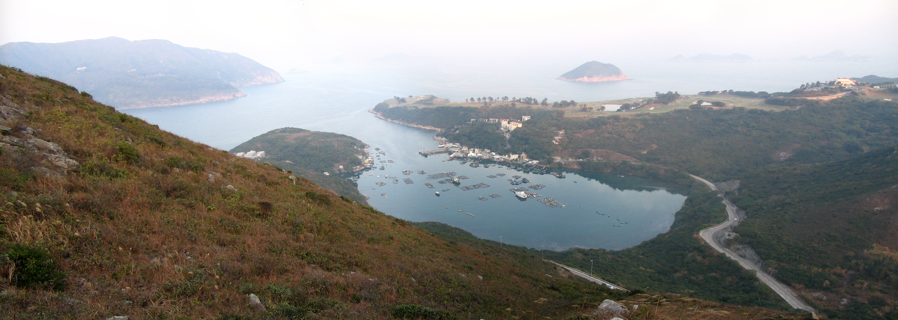 Panoramic photo of Po Toi O, combined from 2169108094, 2168314987, 2169106258 and 2169105254